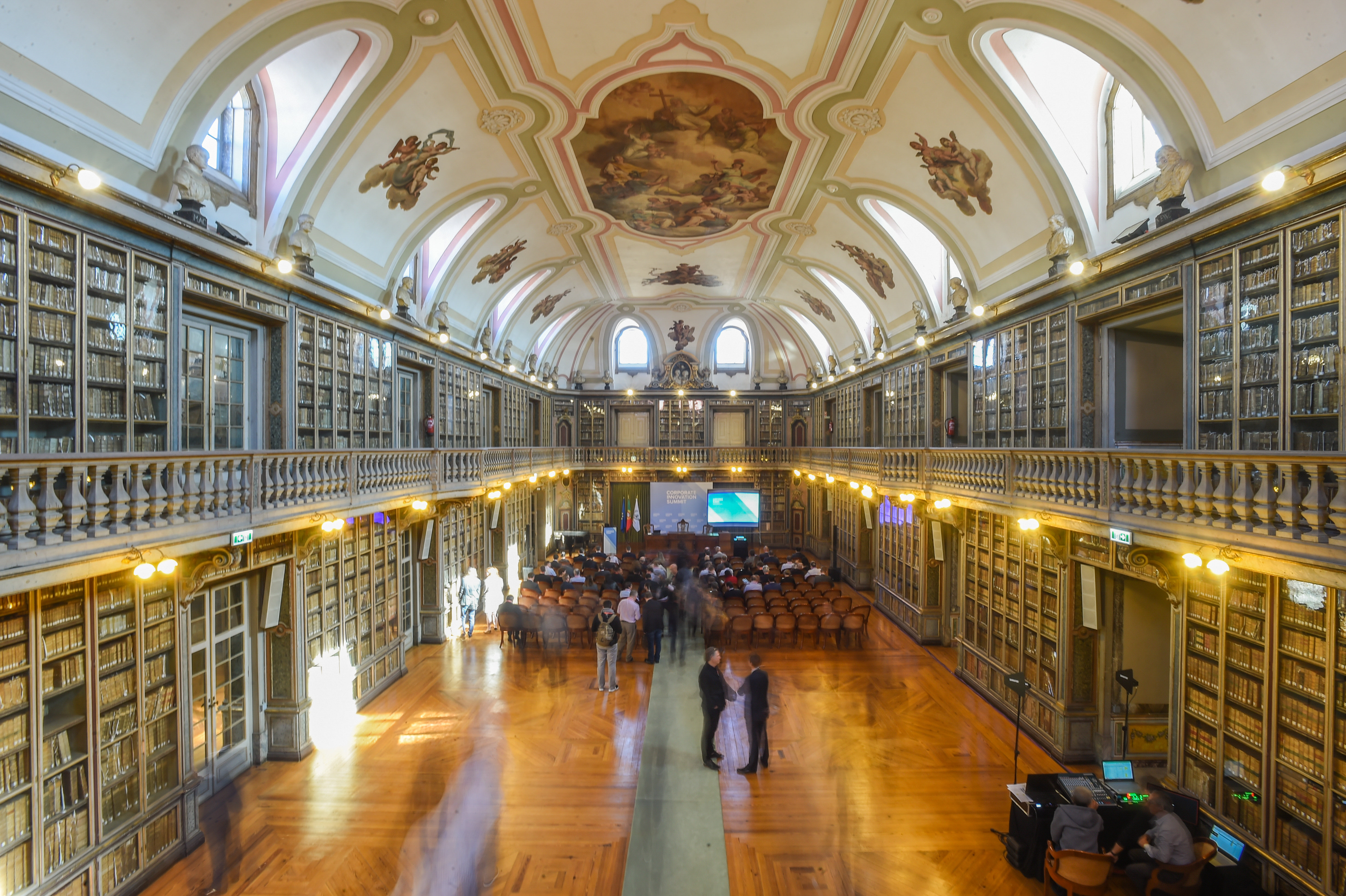 6 November 2017; A general view of the room at the Corporation Innovation Summit during Web Summit 2017 at Academia das Ciências de Lisboa. Photo by David Fitzgerald/Web Summit via Sportsfile